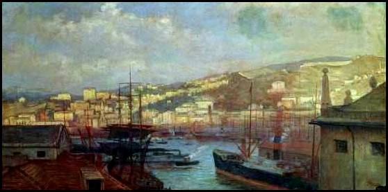 Genova